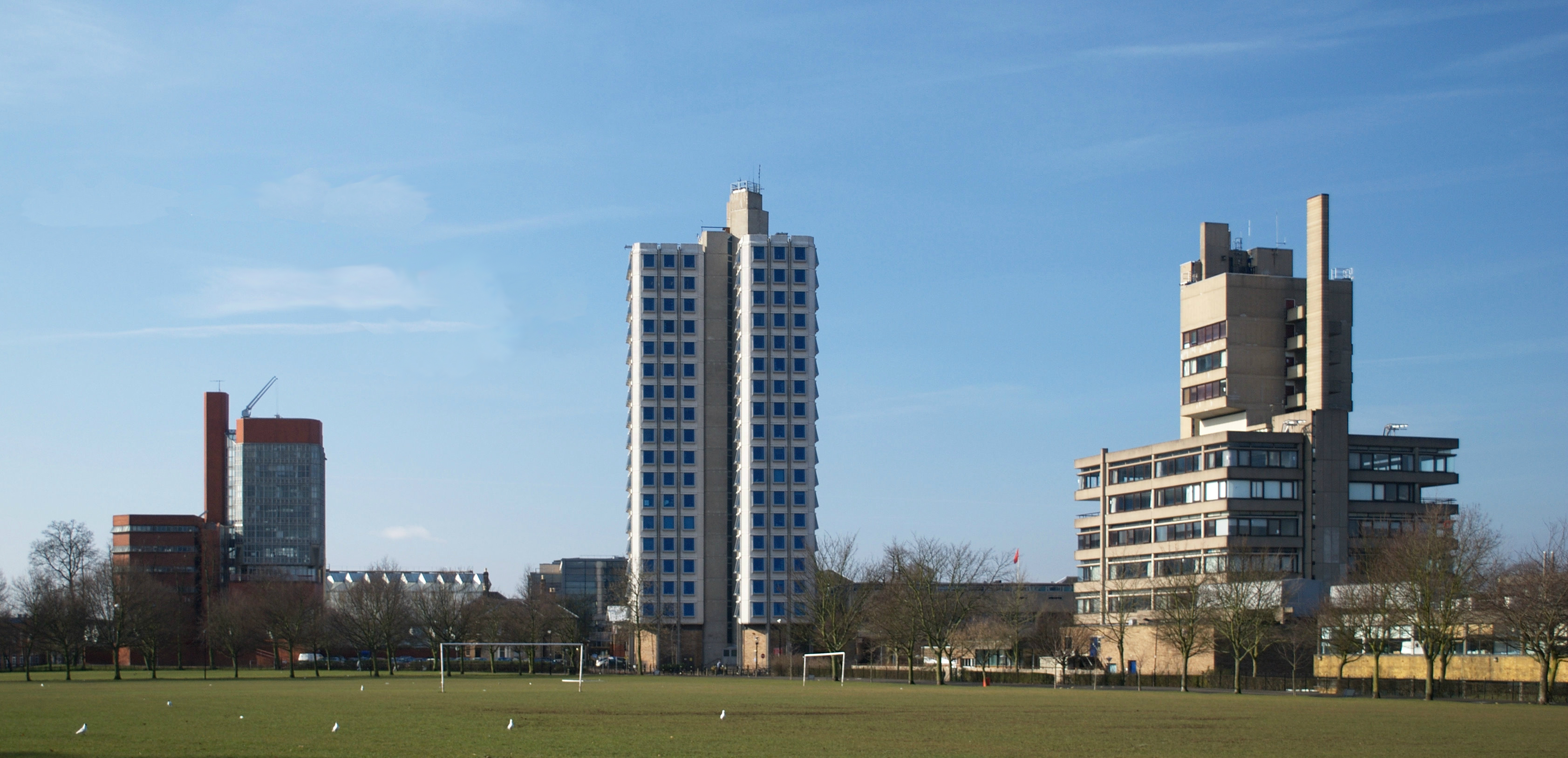 University of Leicester, UK.